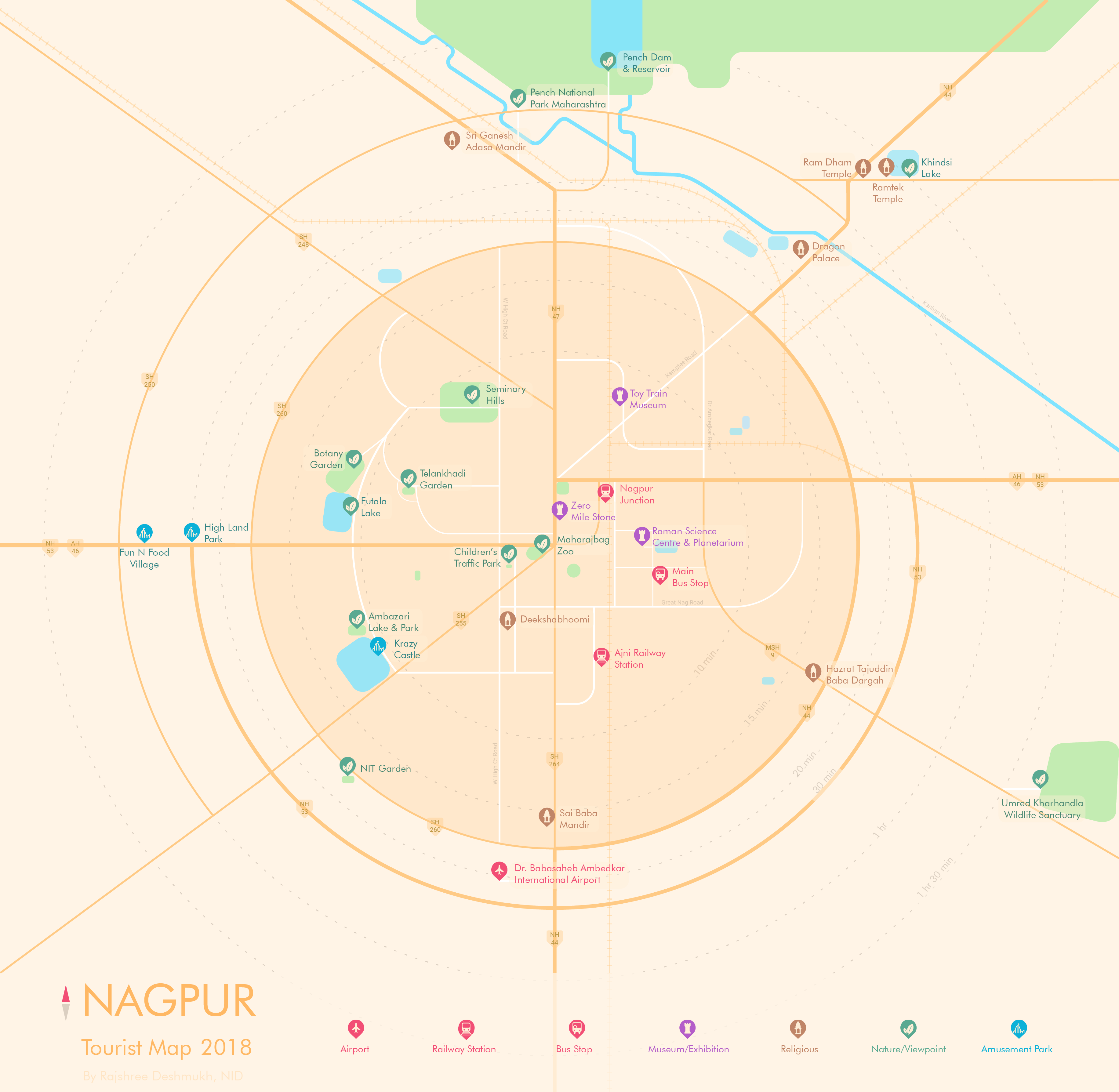 This is a schematic tourist map of Nagpur city in Maharashtra, India. The map's purpose is to get a quick grasp of places to visit in Nagpur and sense of orientation of the city.